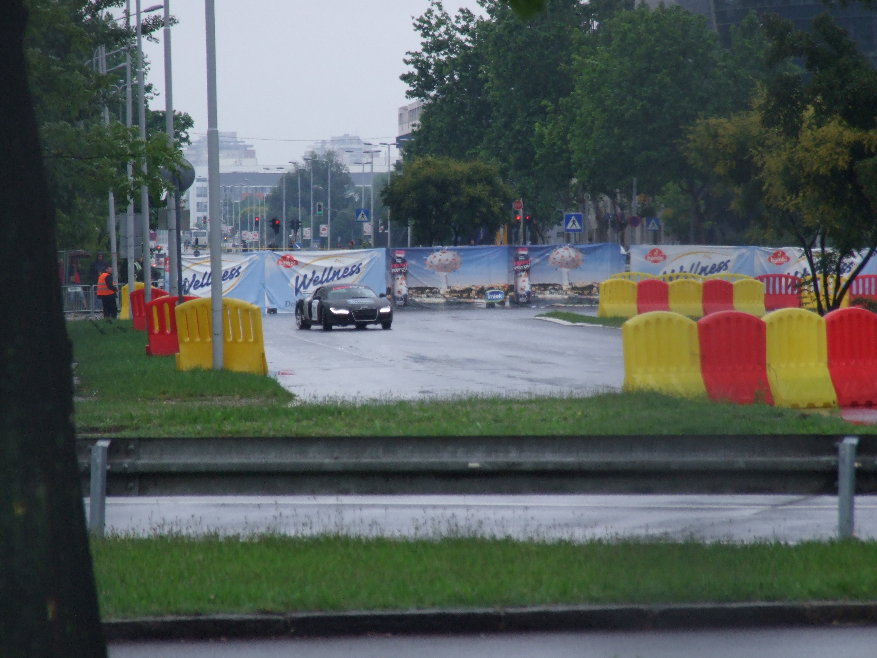 Belgrade 24h Race, 27 june 2010. Belgrade. Audi R8